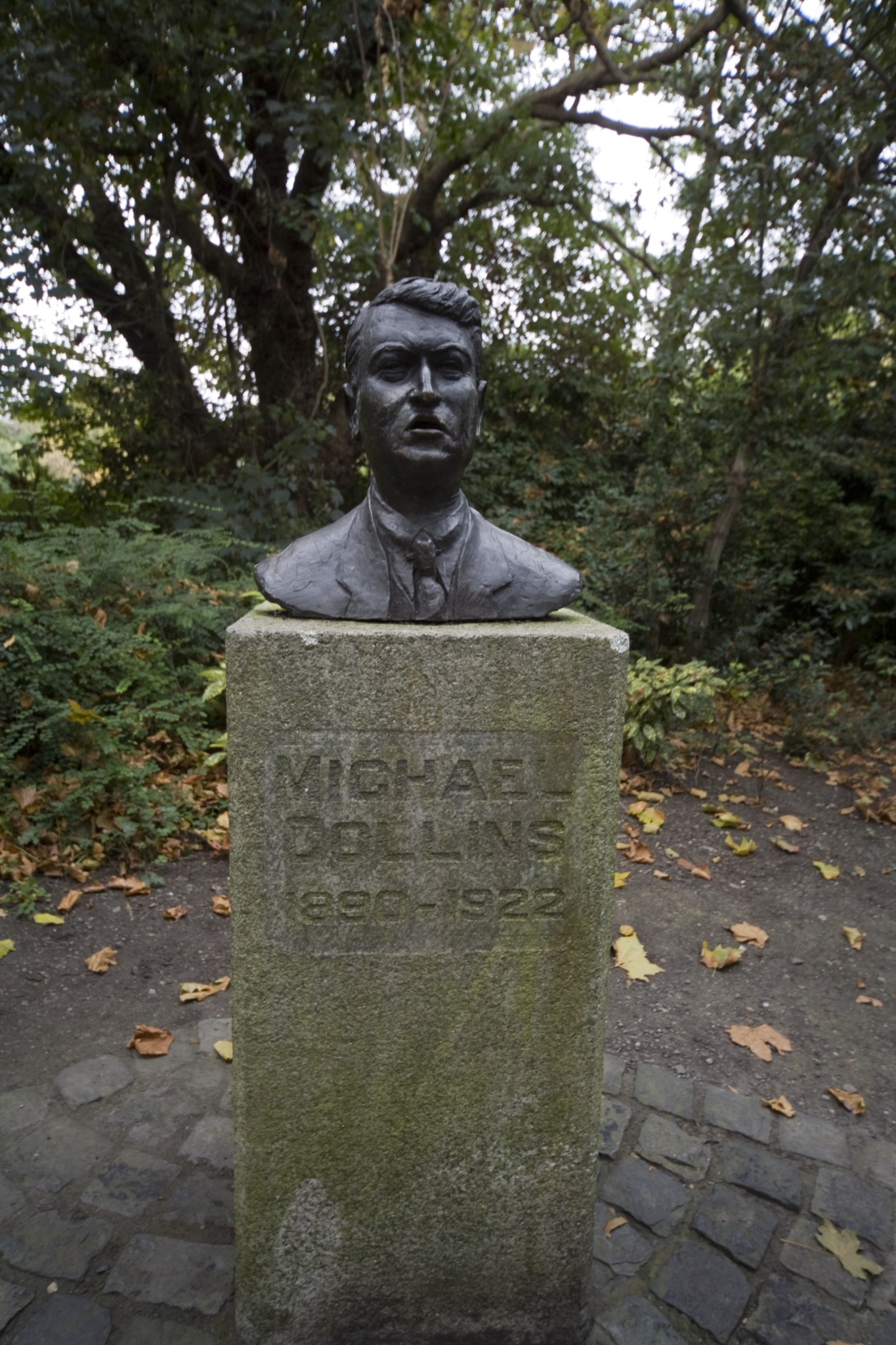 Merrion Square, Dublin, sculpture of Michael Collins (1890-1922)